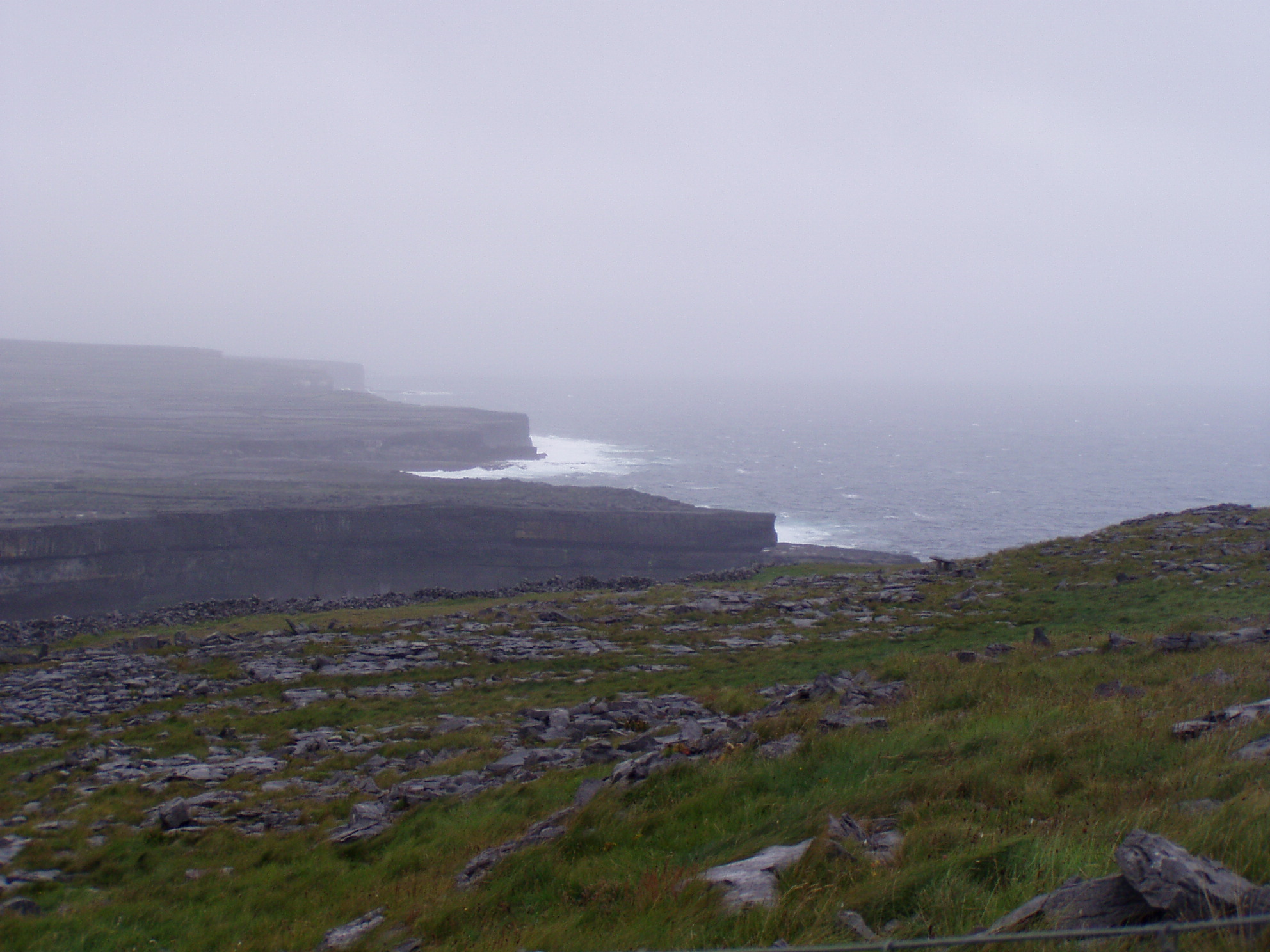 Aran Islands (exactly Inishmore island) in Gallway Bay near Ireland.